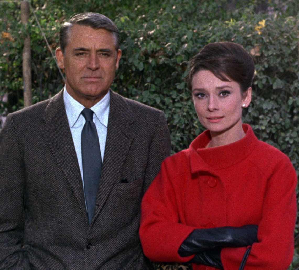 Screenshot of Cary Grant and Audrey Hepburn from the film Charade